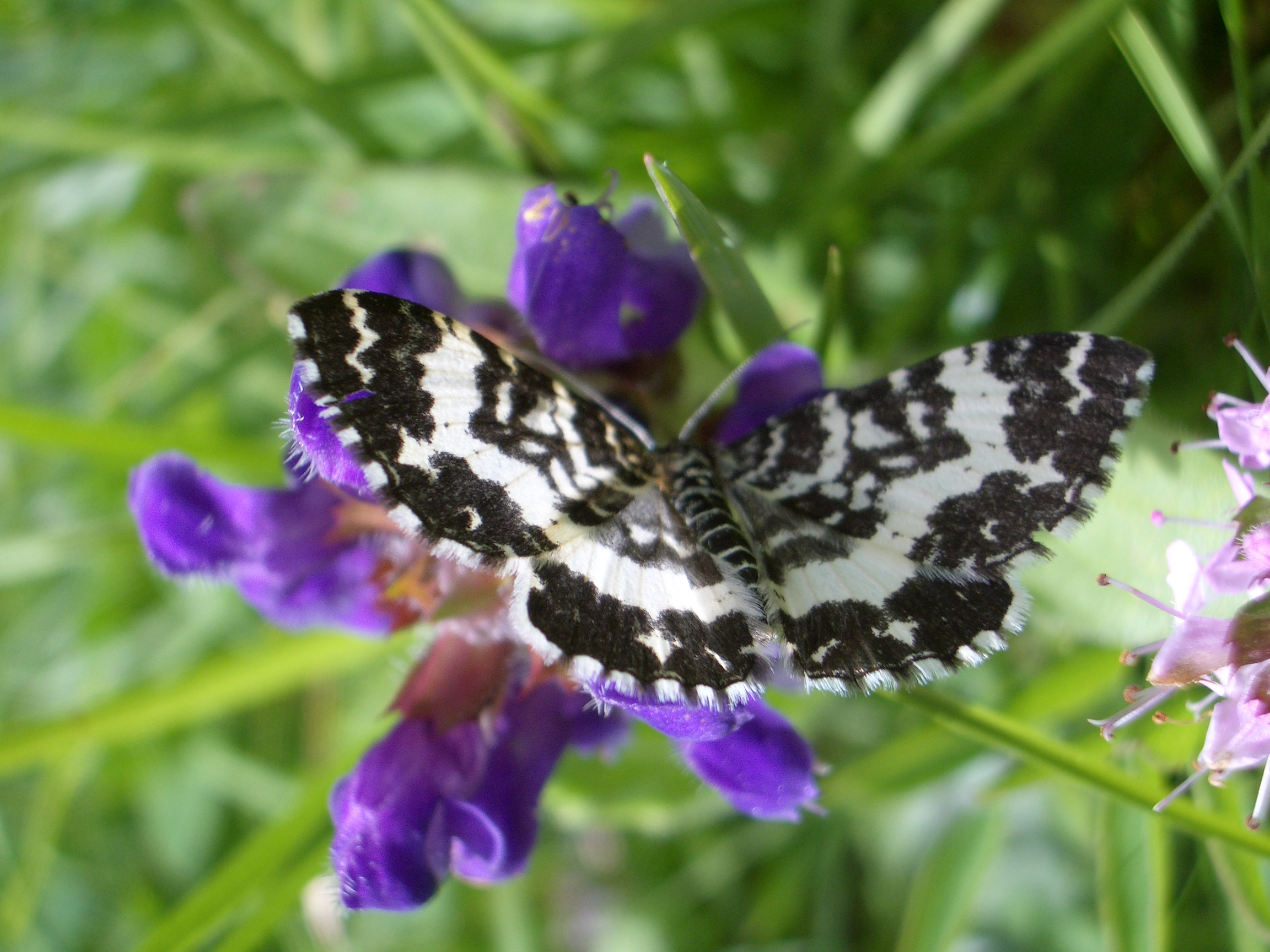 Rheumaptera hastata, taken in the Julian Alps Slovenia